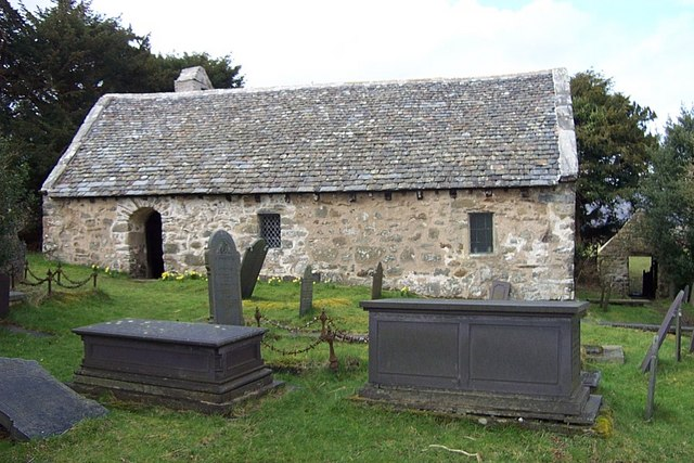 Llanrhychwyn Church. This is ancient Llanrhychwyn church at grid reference SH 77472 61607.